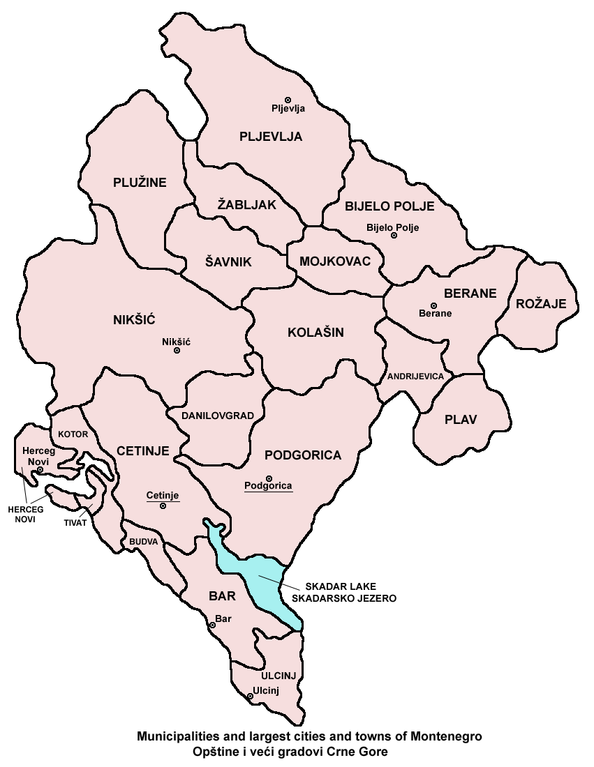 Municipalities and largest cities and towns of Montenegro.